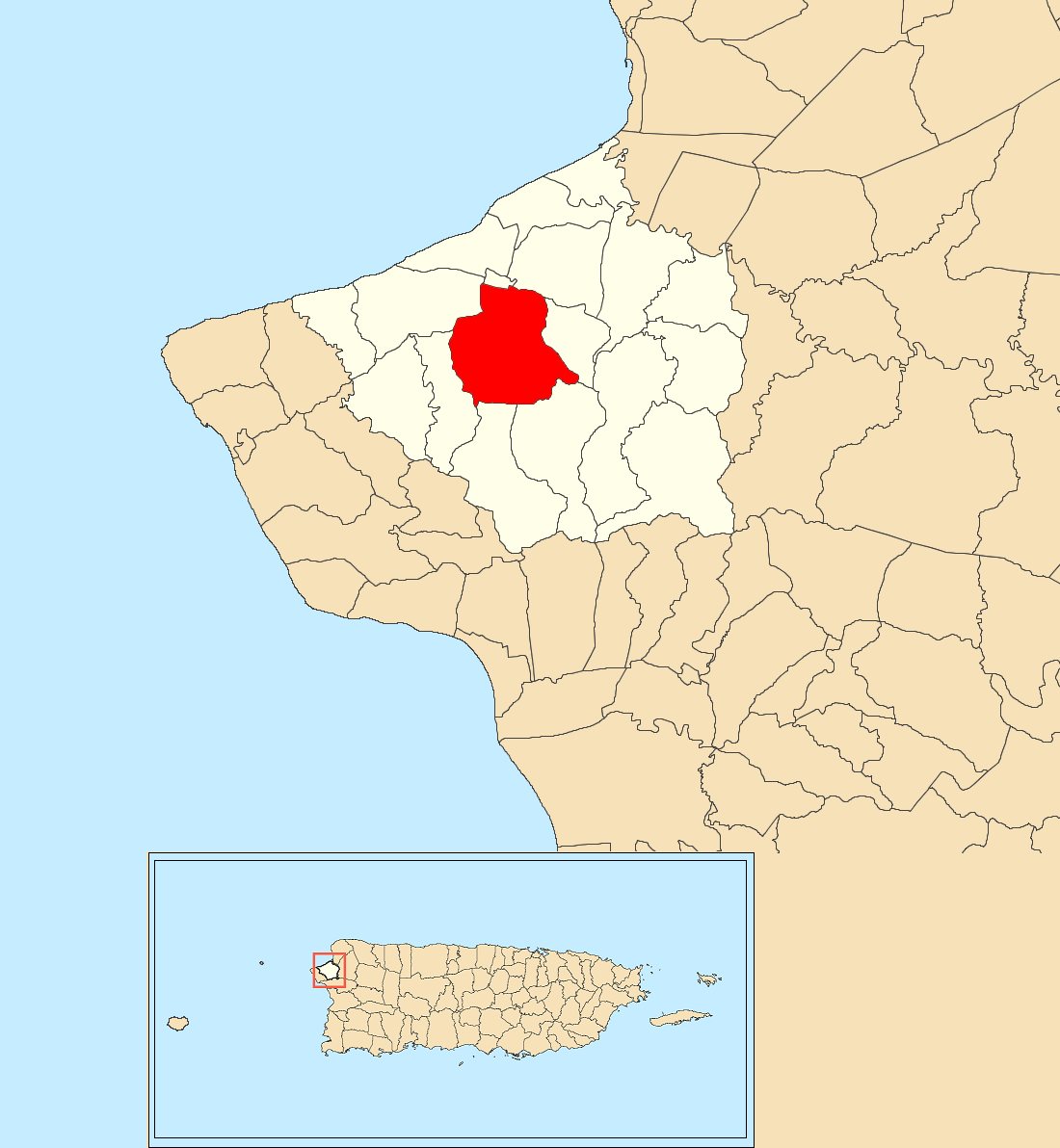 Piedras Blancas, Aguada, Puerto Rico locator map